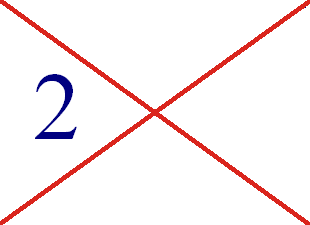 Union Army, II Corps - Army of the Potomac, QM Badge